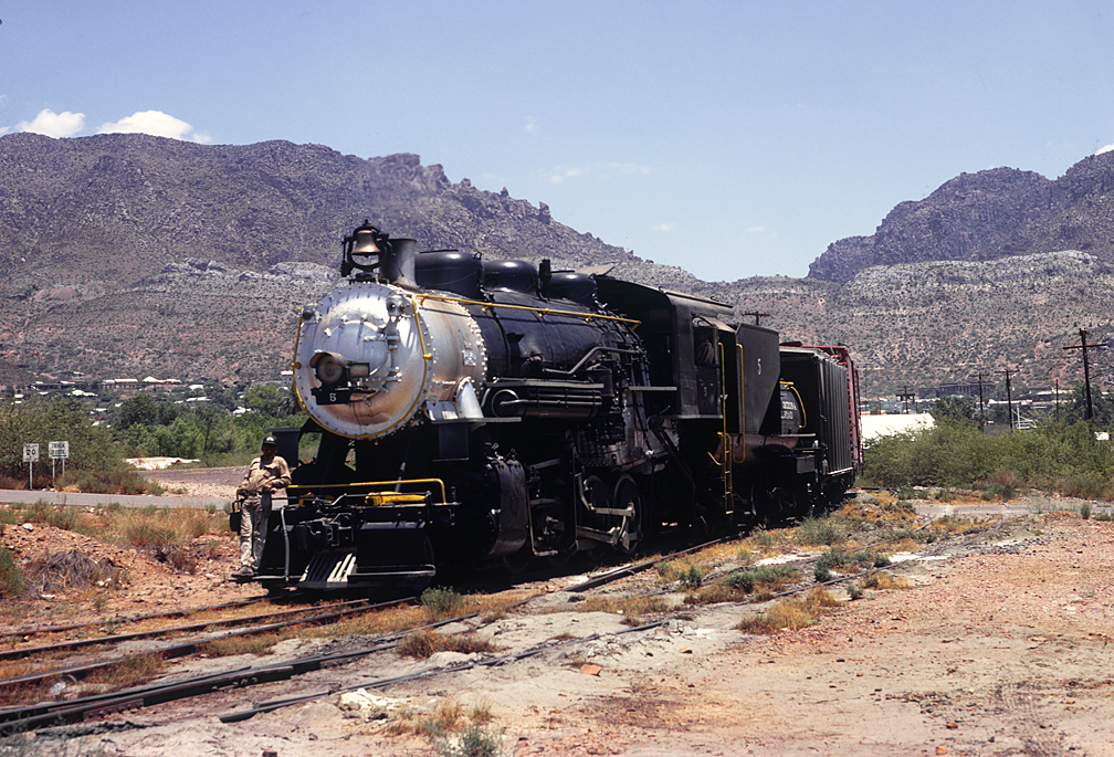 Magma Arizona Railroad switching at Superior June 1967